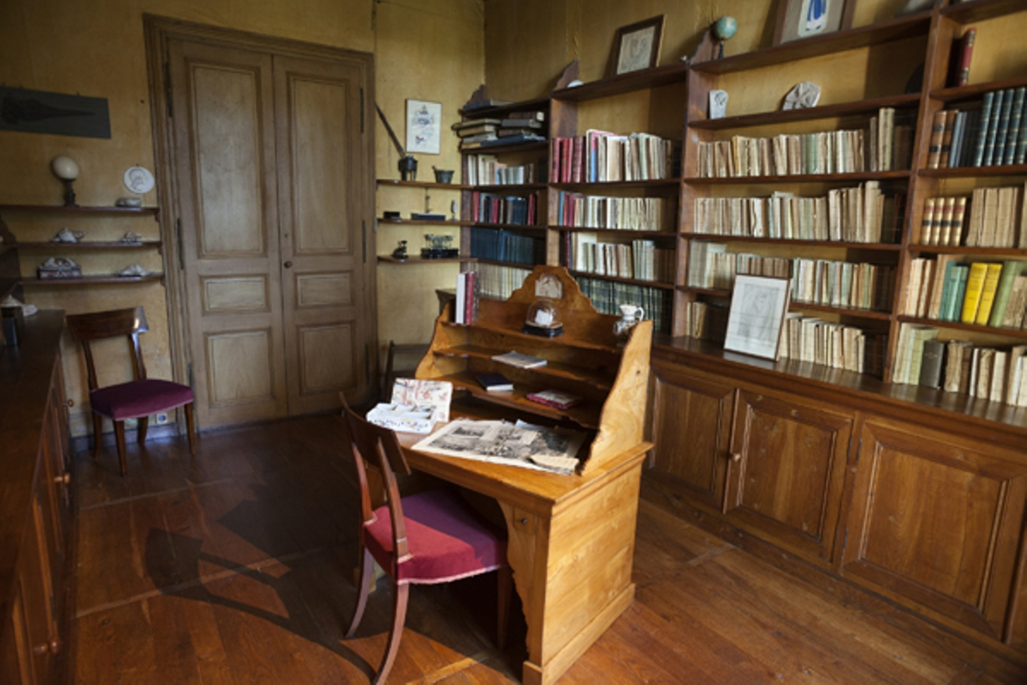 George Sand's study and library, on the first floor of George Sand's house in Nohant-Vic, Indre, France.